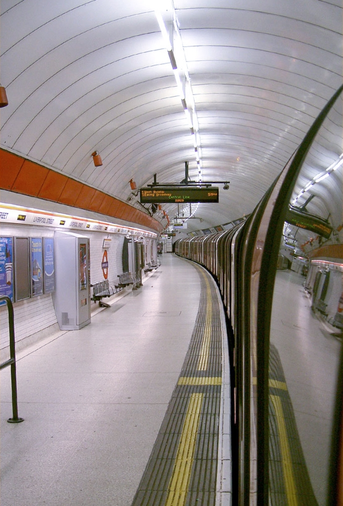 Central Line platform at Liverpool Street Station.